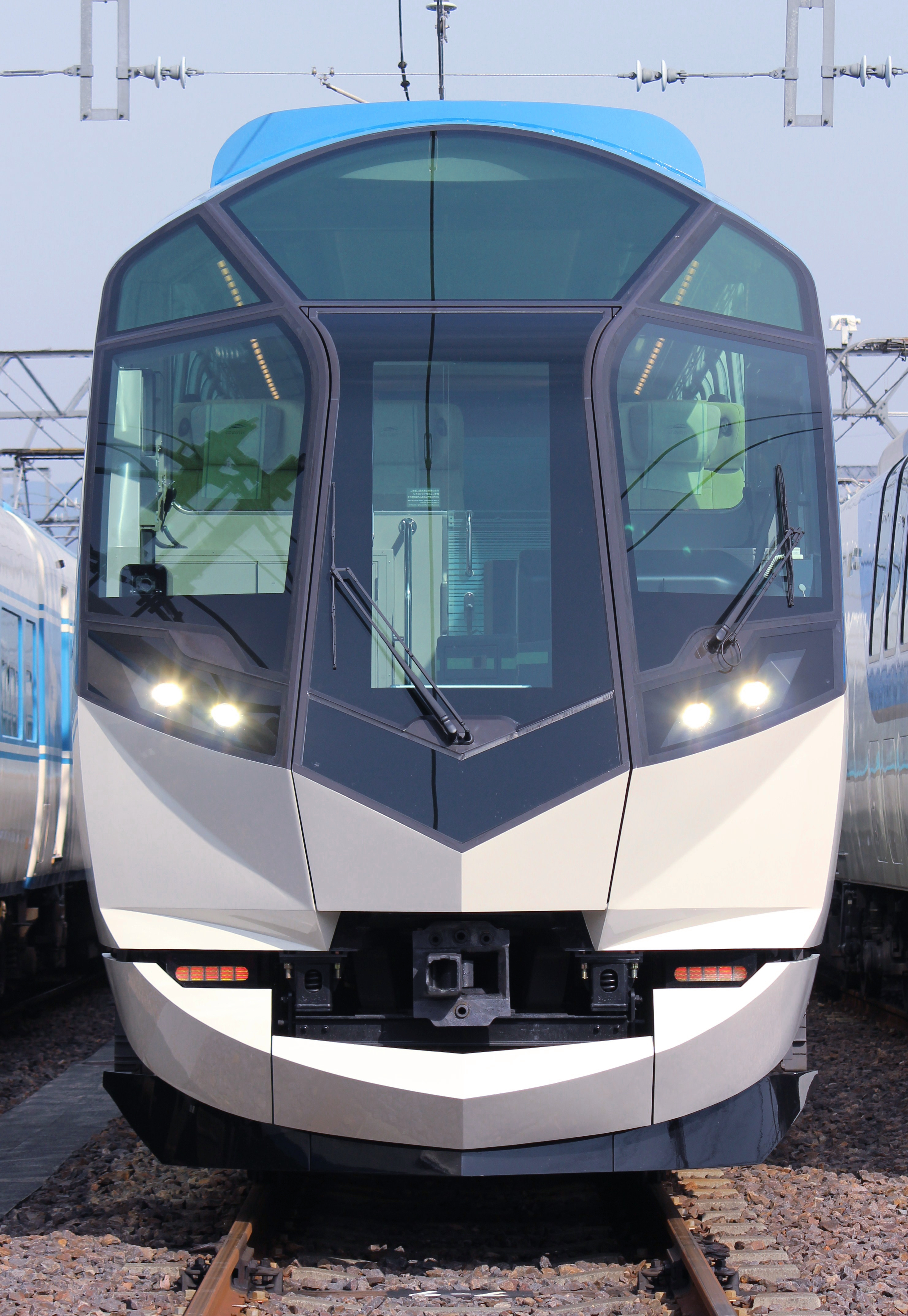 Front end view of the Kintetsu 50000 series Shimakaze EMU